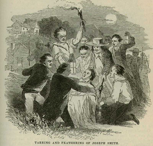 Depiction of Joseph Smith being tarred and feathered.